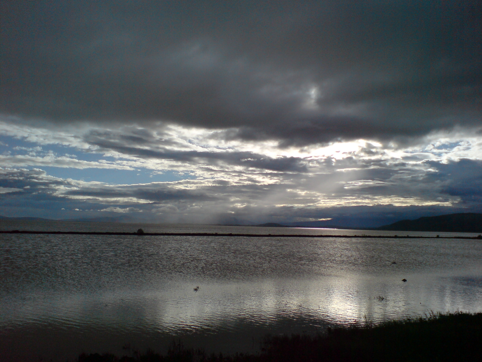 Sunset in Laguna Totolcingo, instead of plain beauty arnomia and increoble